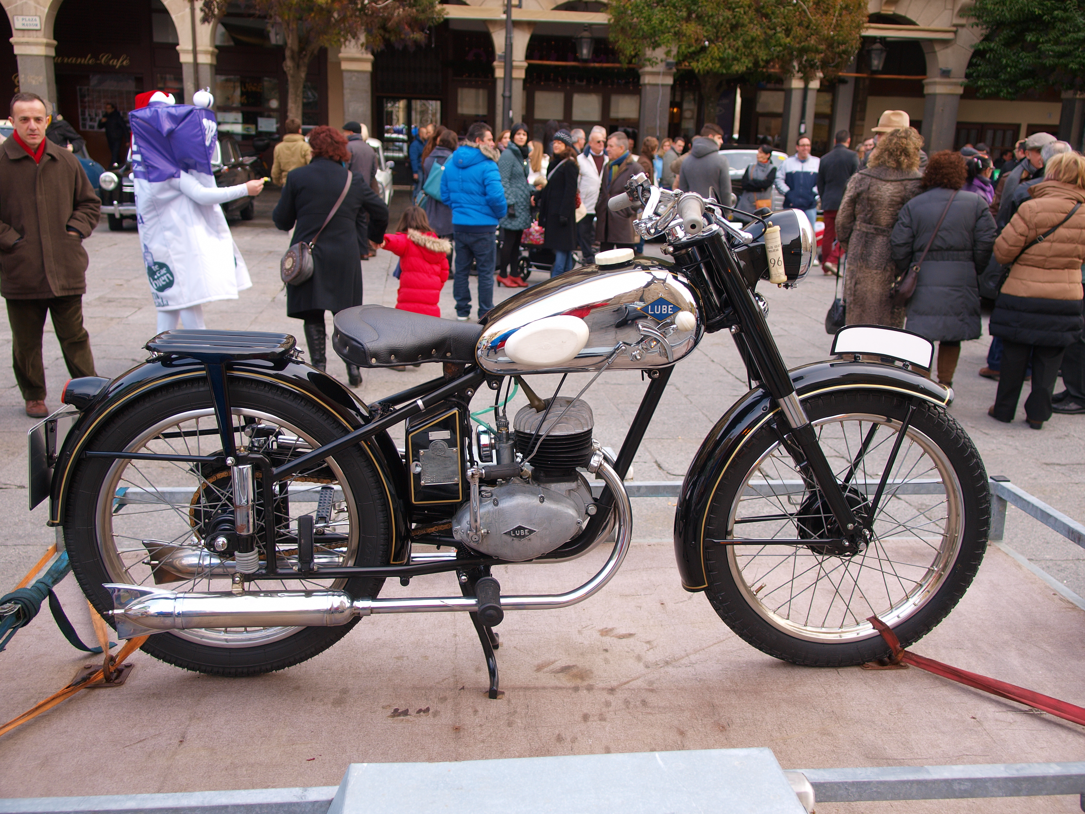 Lube motorcycle seen in Zamora (Spain), December 2013